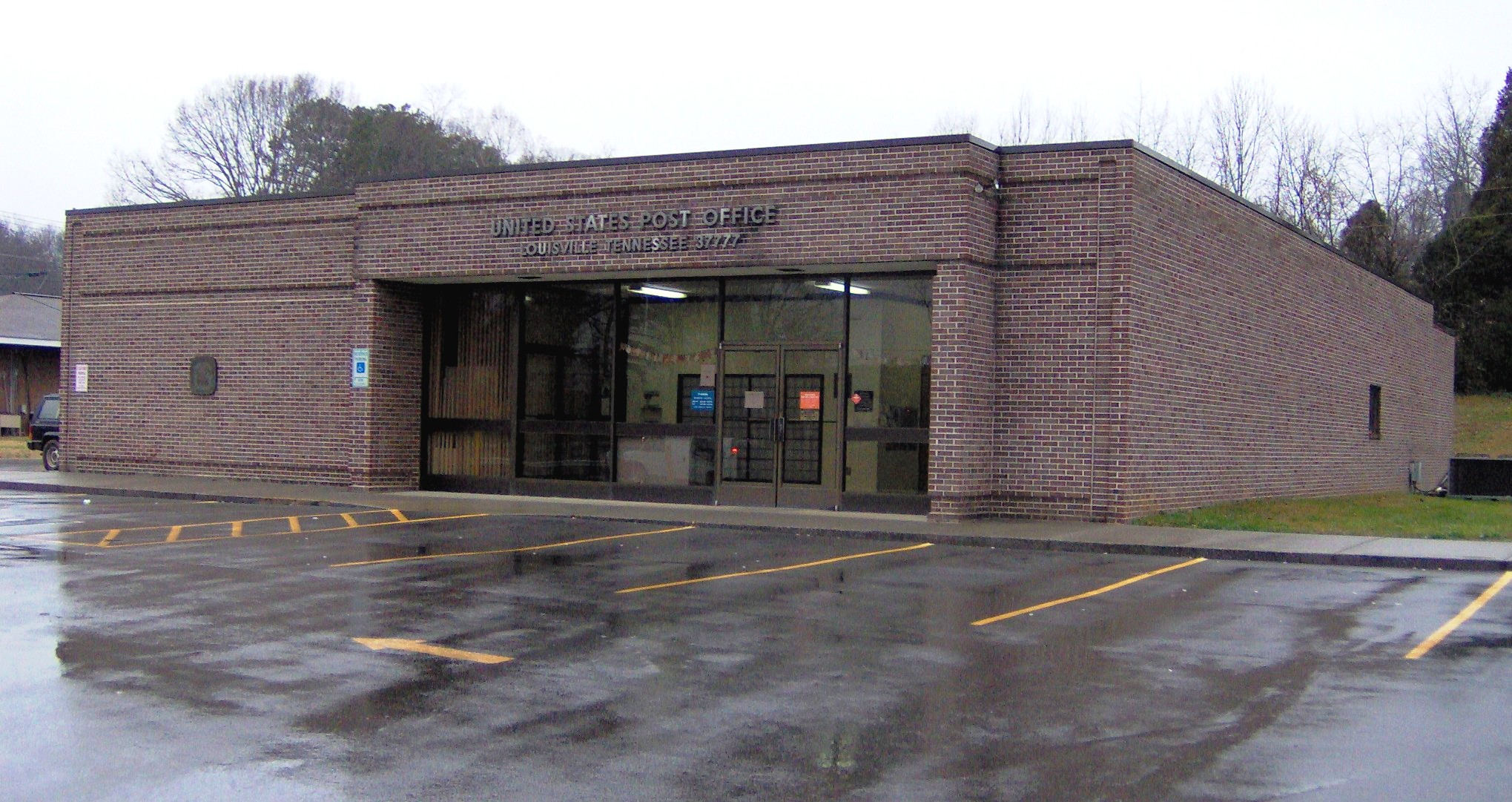 The post office in Louisville, Tennessee, located in the Southeastern United States.